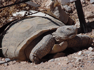 Mojave Max, desert tortoise that lives at the Red Rock Canyon visitor's center.